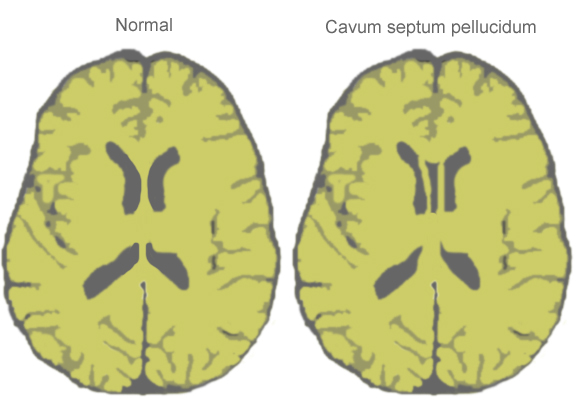 Diagram of the normal and cavum septum pellucidum. By Behrang Amini Summary Diagram of the normal and cavum septum pellucidum. By Behrang Amini